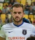 İstanbul Büyükşehir Belediyespor 2016